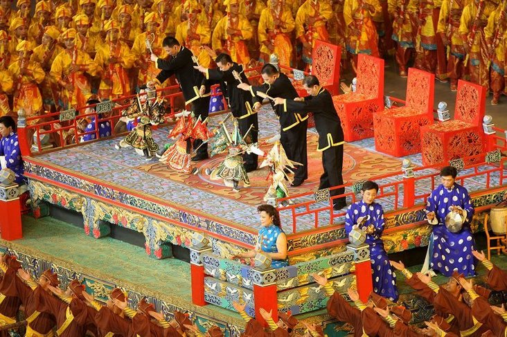 Performances at the 2008 Summer Olympics opening ceremony.